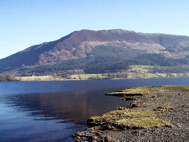 Bassenthwaite Lake seen from Blackstock Point